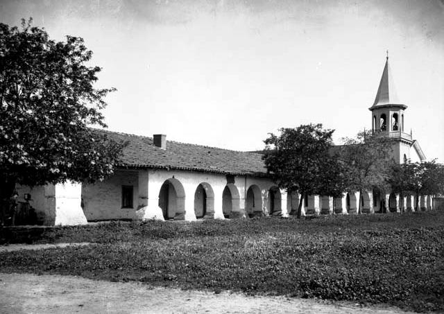 A picture of Mission San Juan Bautista taken sometime between 1880 and 1910. Credited to William Henry Jackson, who died in 1942. File copied from